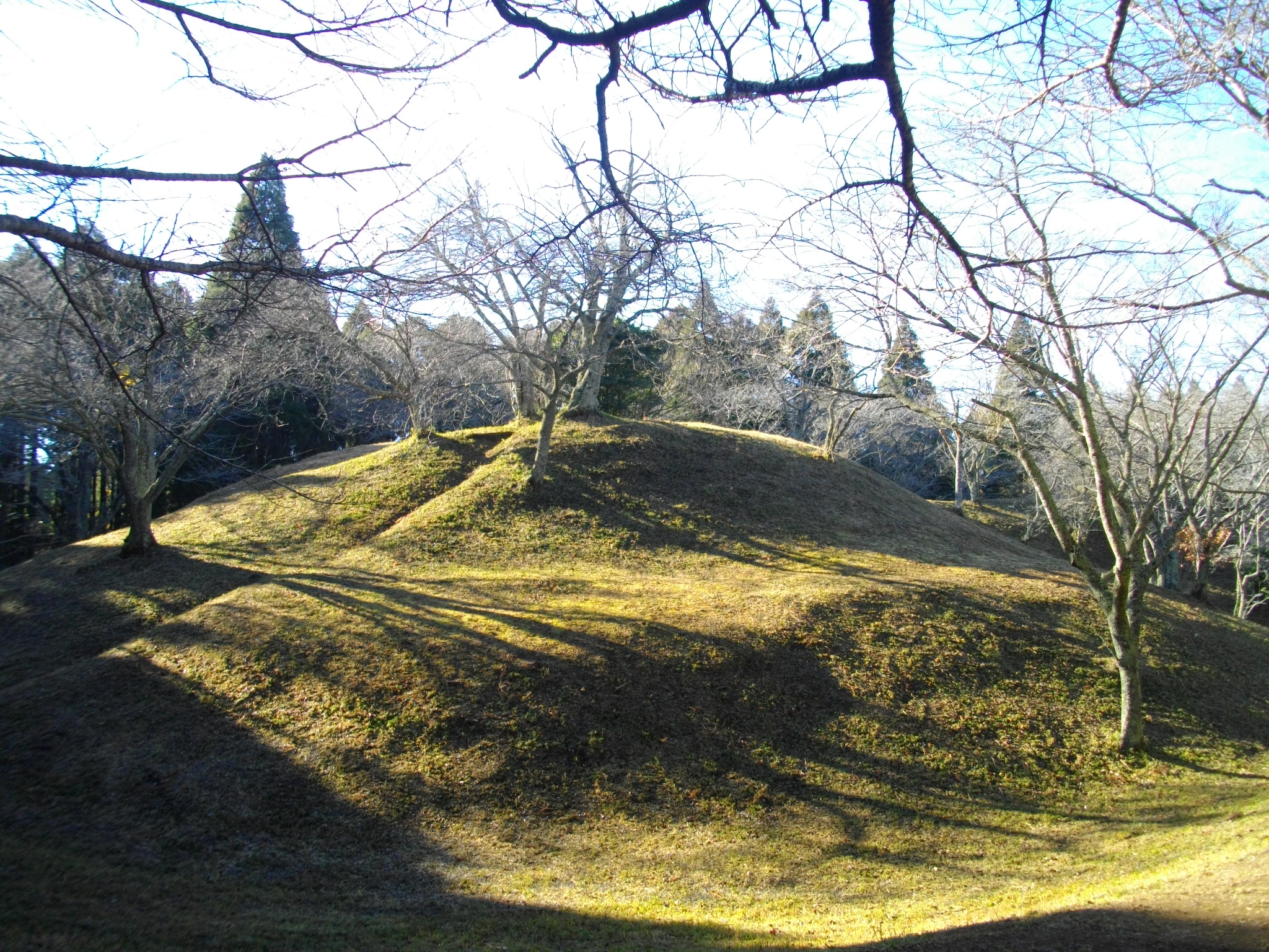 Tonozuka